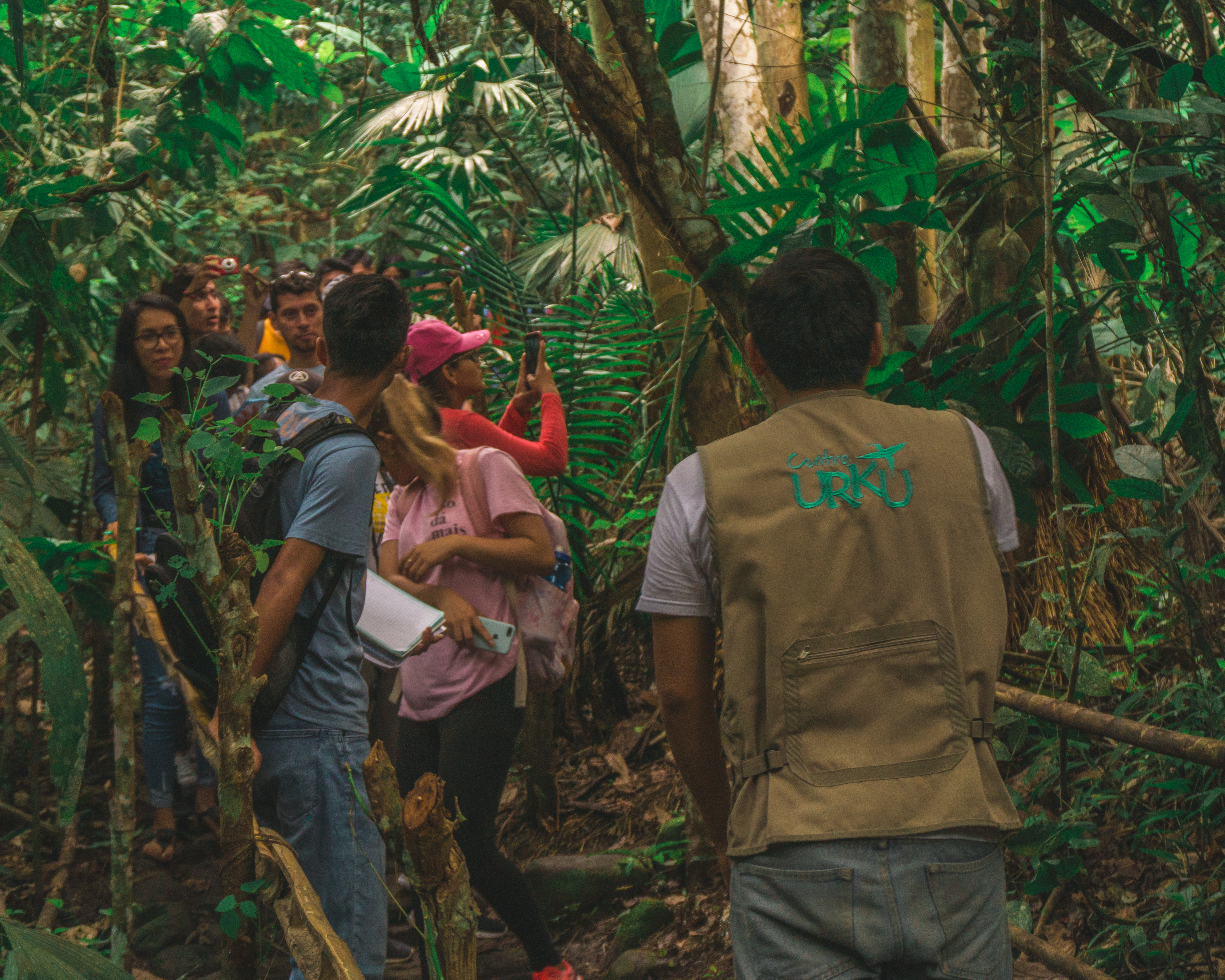 A guide, leading tourists through Centro Urku